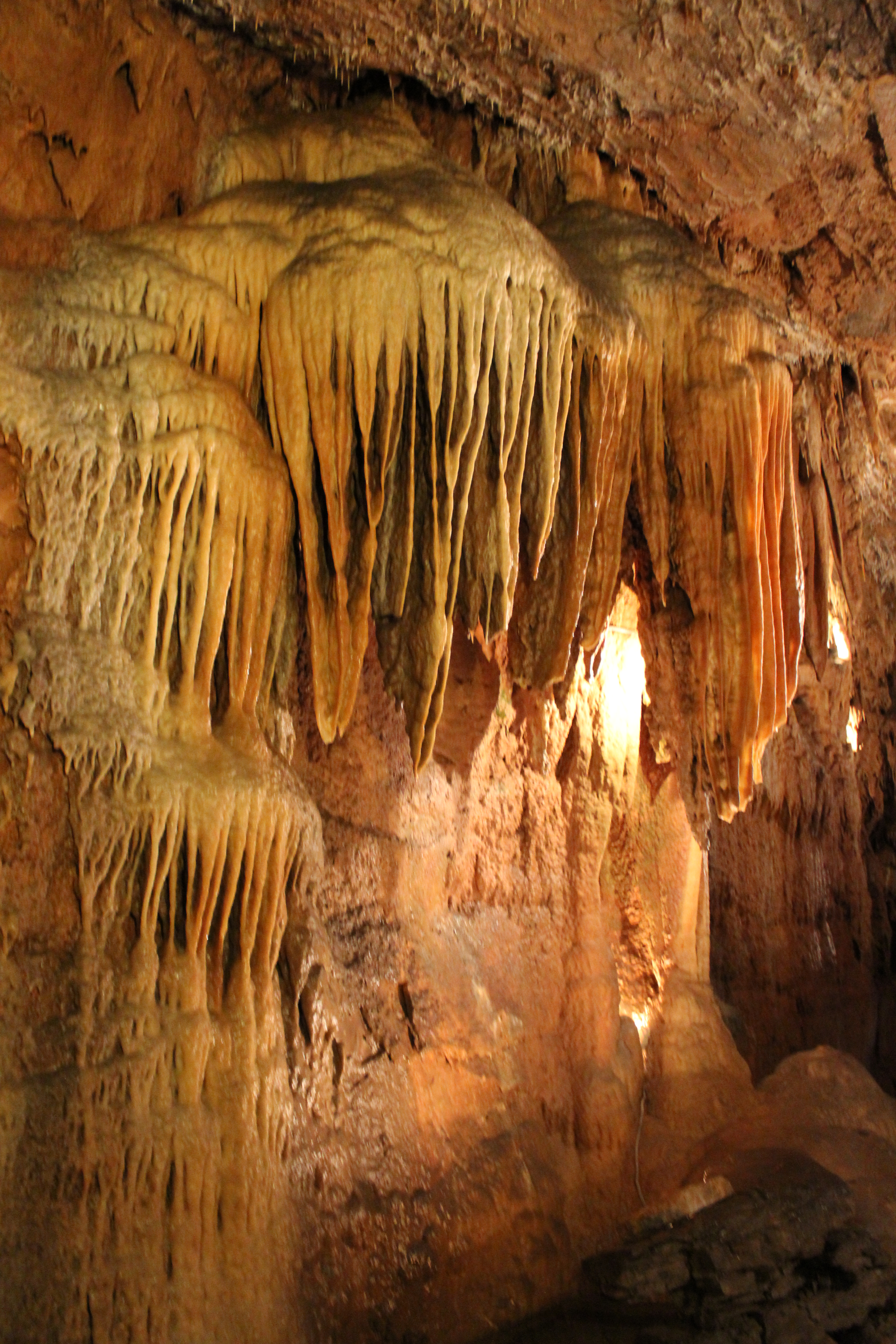 Picture taken inside Smoke Hole Caverns